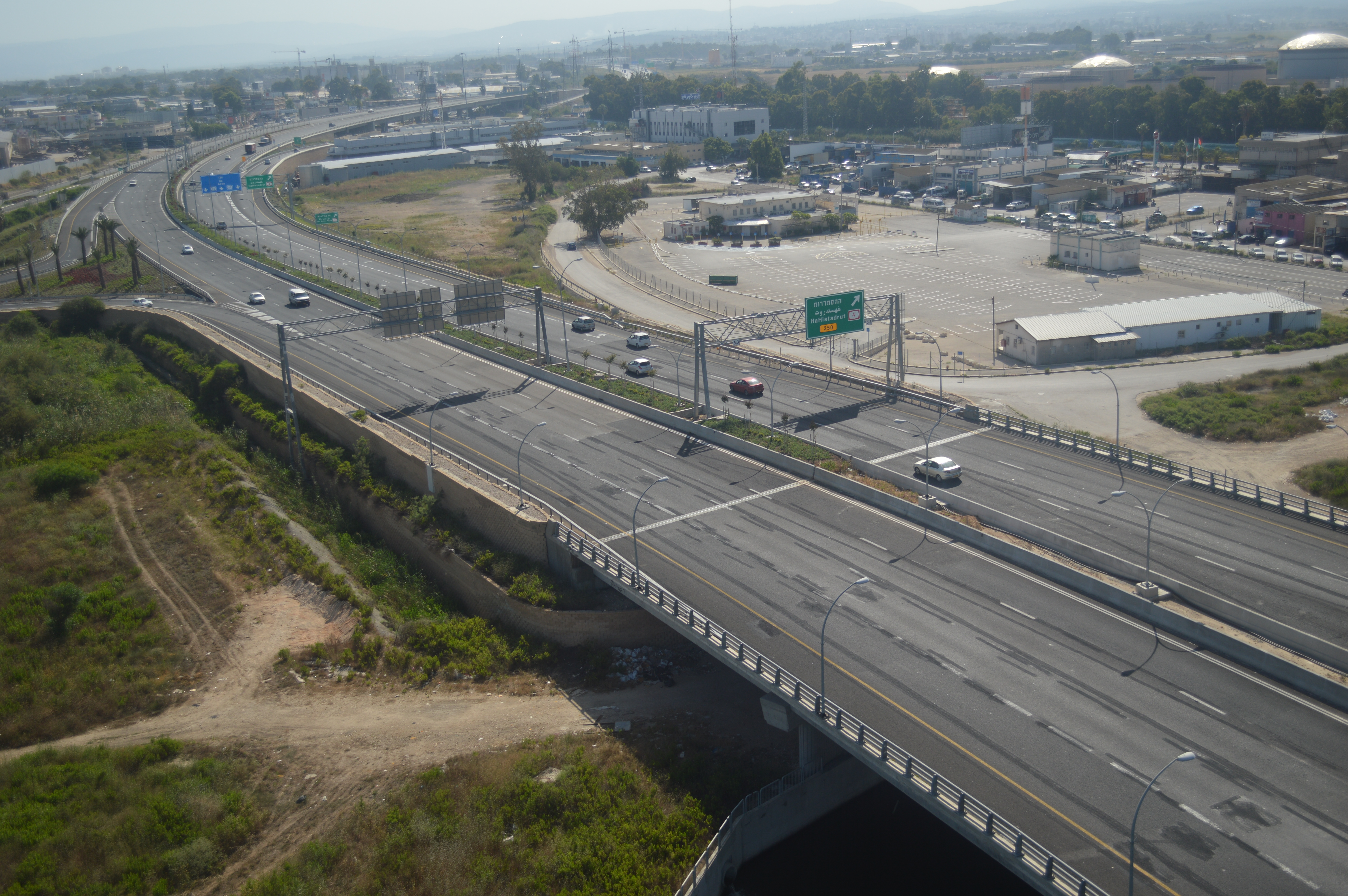 Aerial View of Haifa